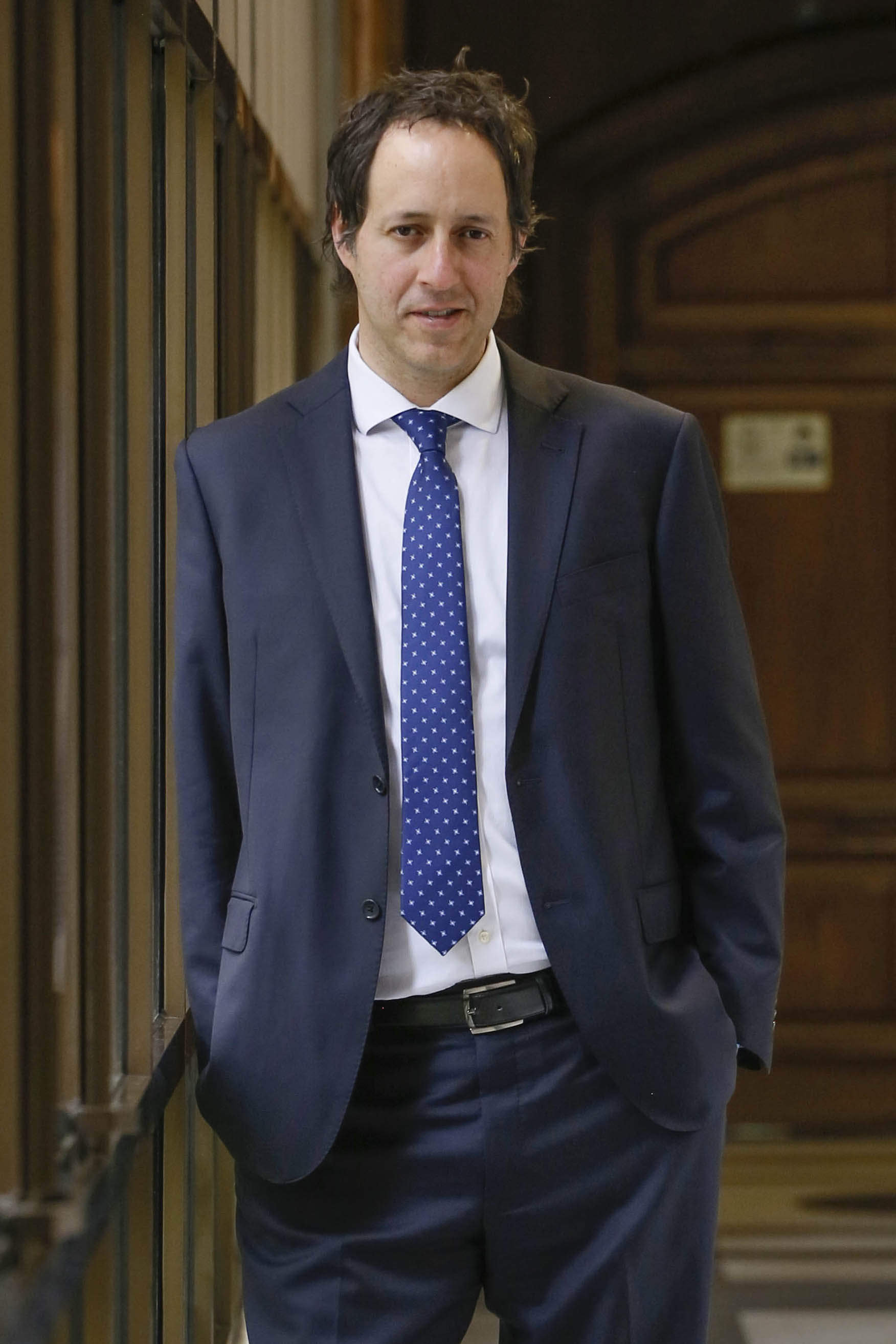 Deputy Cristóbal Urruticoechea